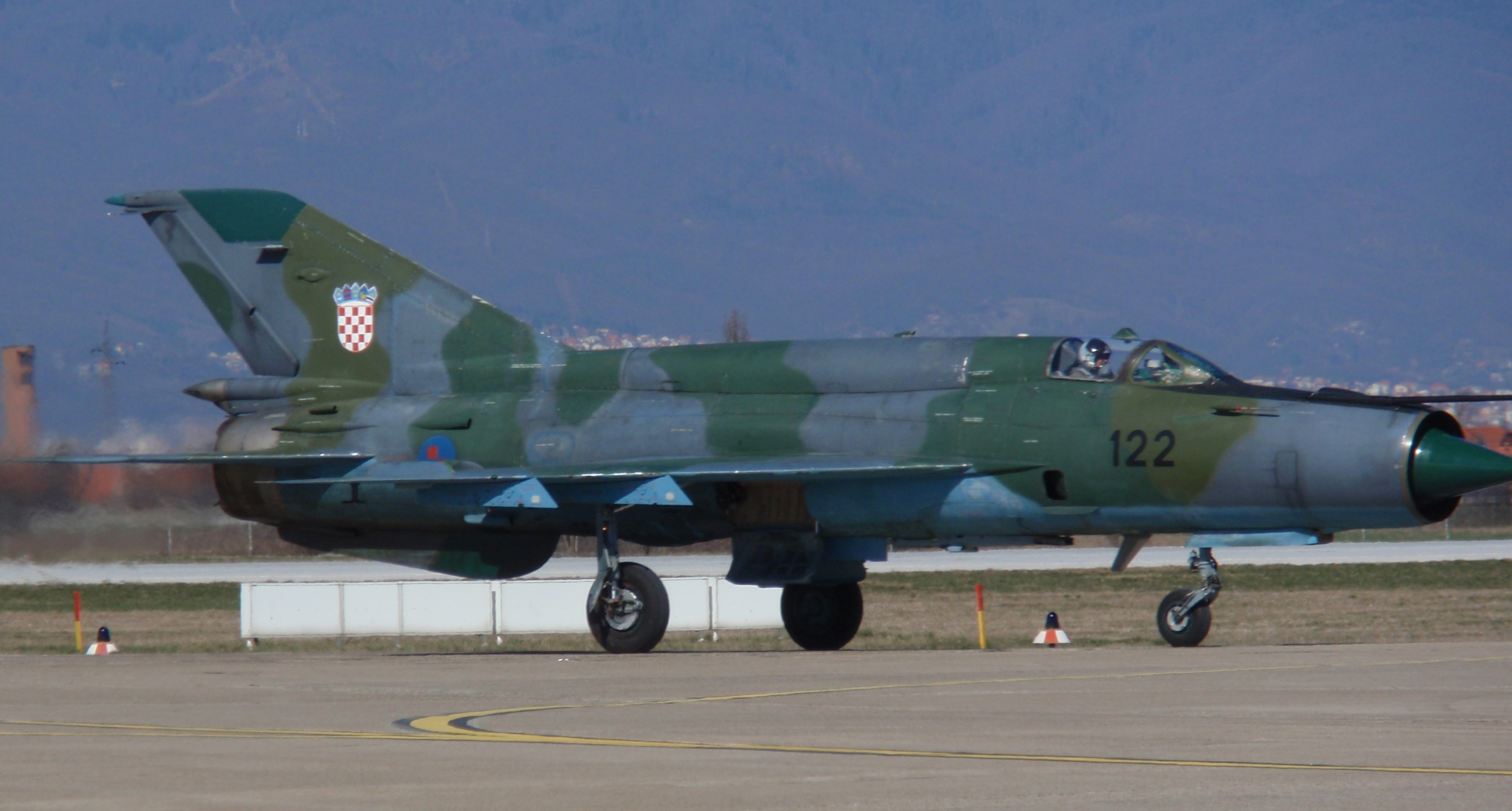 MiG 21-Bis, Croatian air force